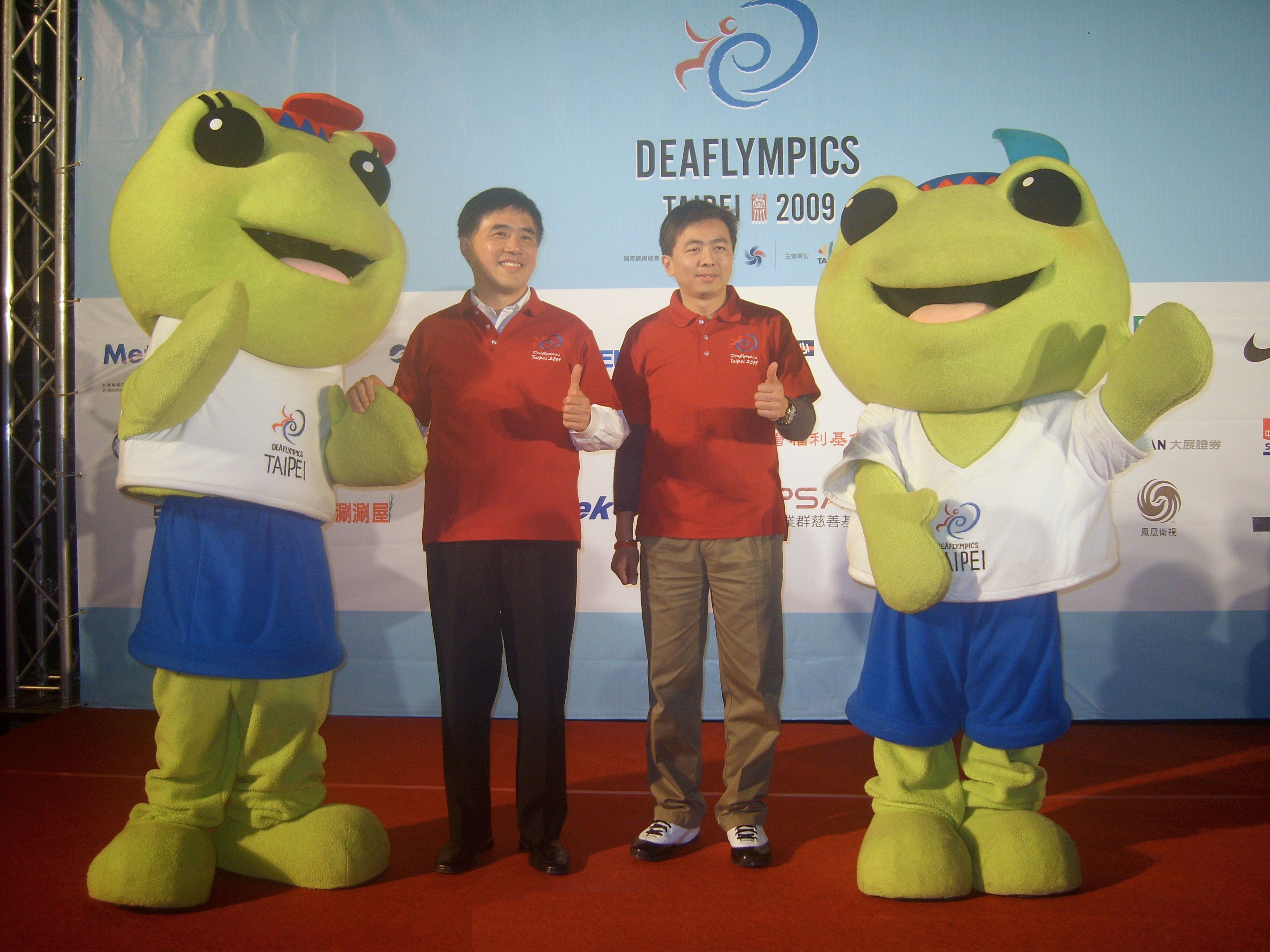 Year of 2009 Summer Deaflympics Press Conference: Hau Lung-pin (Mayor of Taipei) and Emile Sheng (Executive General of T2009 Foundation).